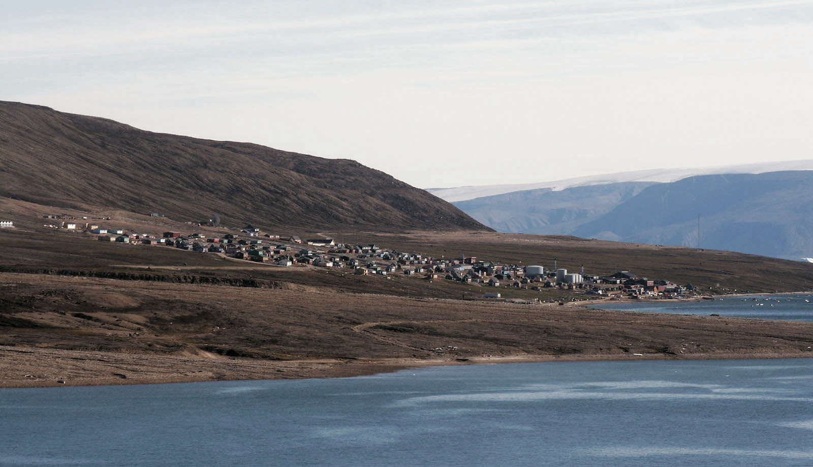 Thule members support local medical evacuation Members of Thule Air Base, Greenland, supported a medical evacuation in mid June for a woman who had been stabbed in the village of Qaanaaq, located approximately 65 miles north of the base. Qaanaaq is home to about 600 people. This photo was taken in late summer 2007 after the ice on the surrounding water had melted. (U.S. Air Force photo/Col. Lee-Volker Cox)